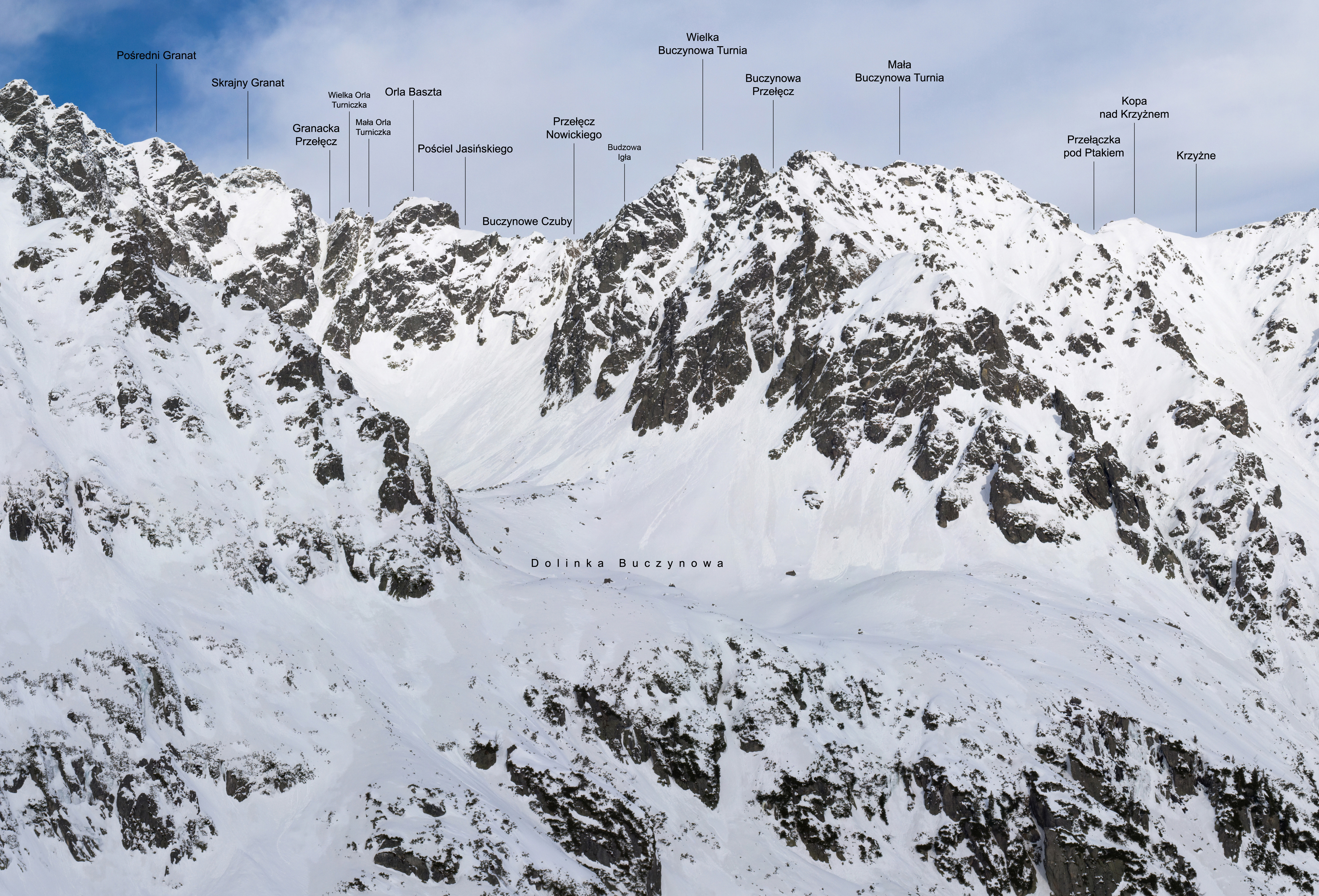 Peaks above Buczynowa valley – view from Wyżnia Kopa.